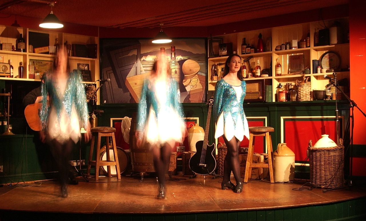 Irish girl step dancing at a Jamesons' bar in Dublin, Ireland.